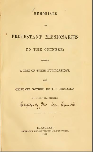 Book cover of Memorials of Protestant Missionaries